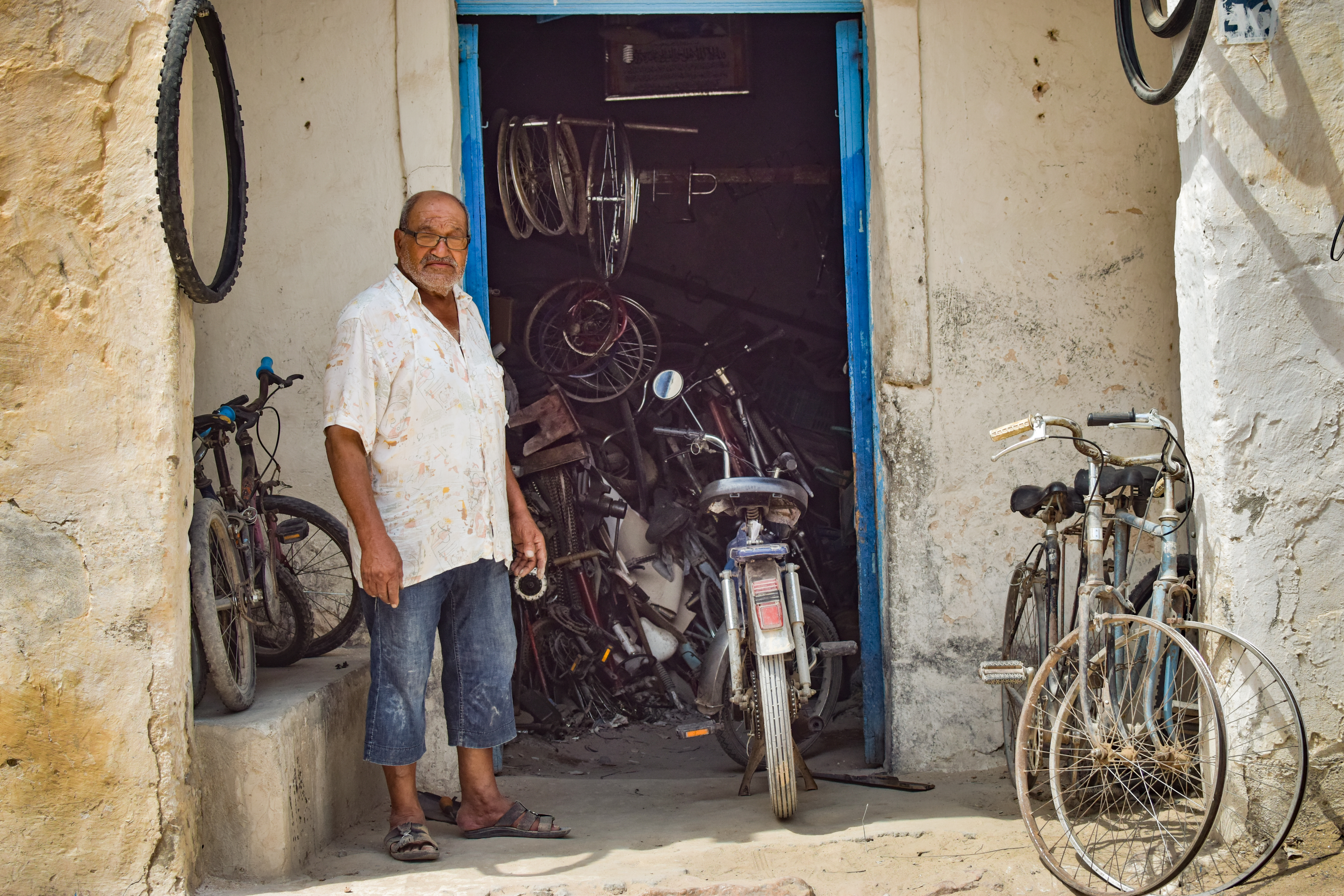 This is an image with the theme "Africa on the Move or Transport" from: Tunisia